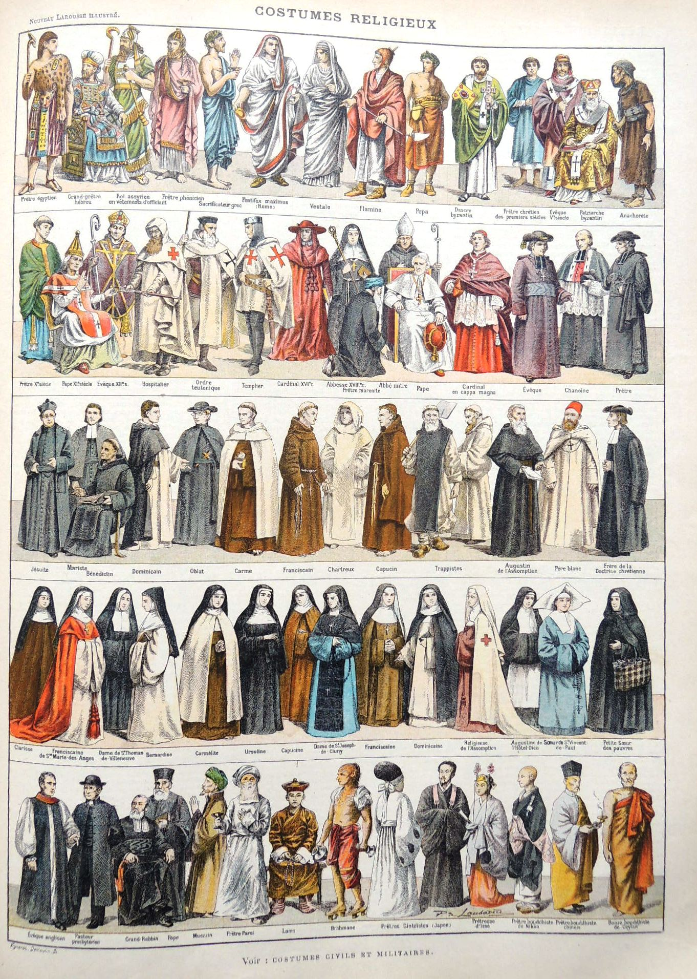 19th Century French religious habits